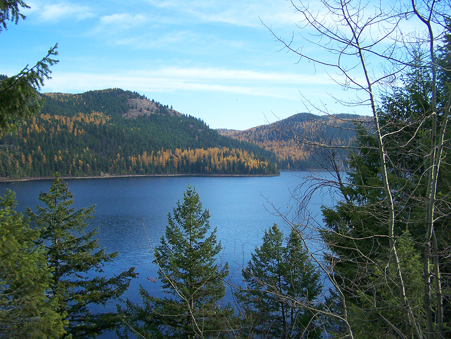 Beautiful fall colors along the Tally Lake Road on the Flathead National Forest.